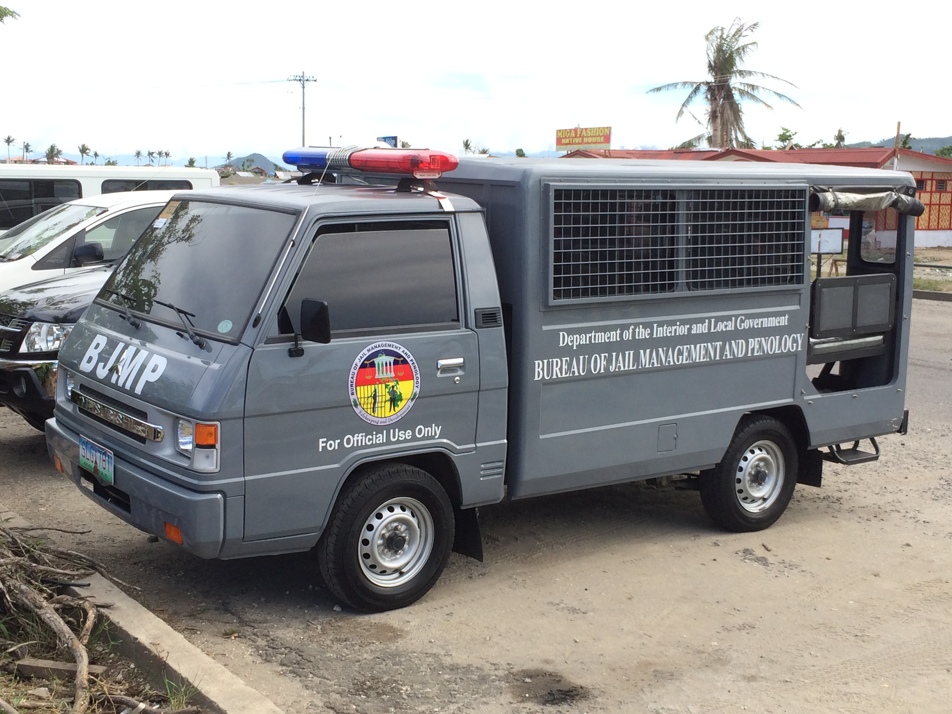 A Mitsubishi L300 FB prisoner transport vehicle of the Bureau of Jail Management and Penology parked in Tacloban International Airport in Tacloban, Leyte.